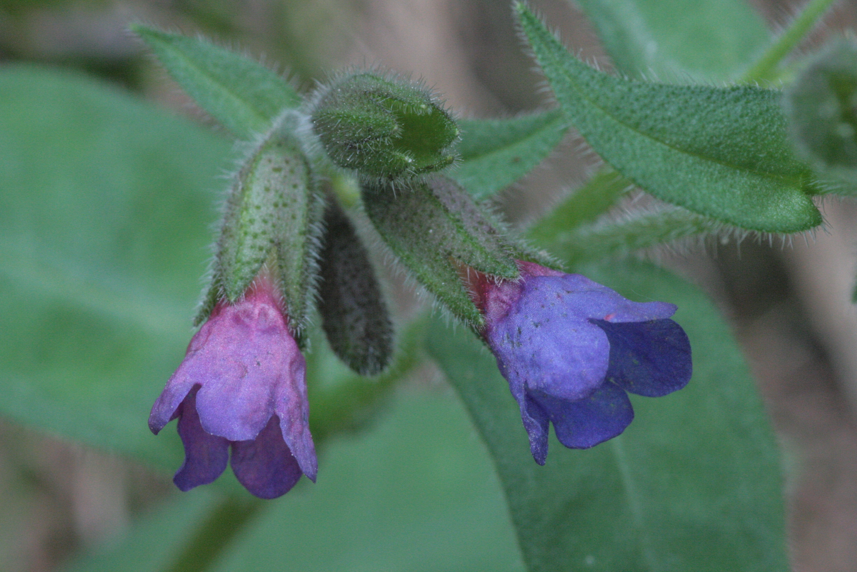 Pulmonaria kerneri